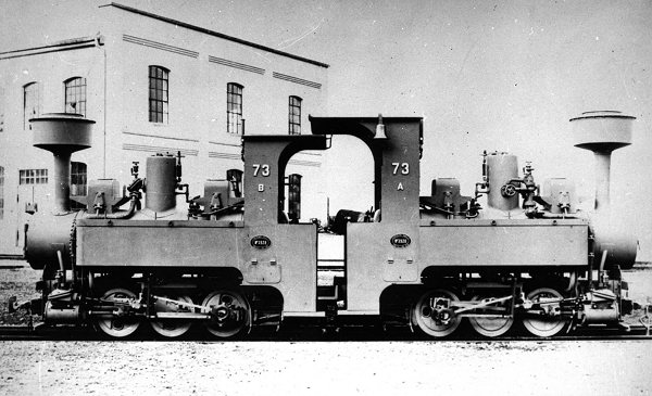 Swakopmund-Windhuk Staatsbahn Zwillinge 73 A & B (0-6-0T)Builder's works number: Krauss 3298/1899